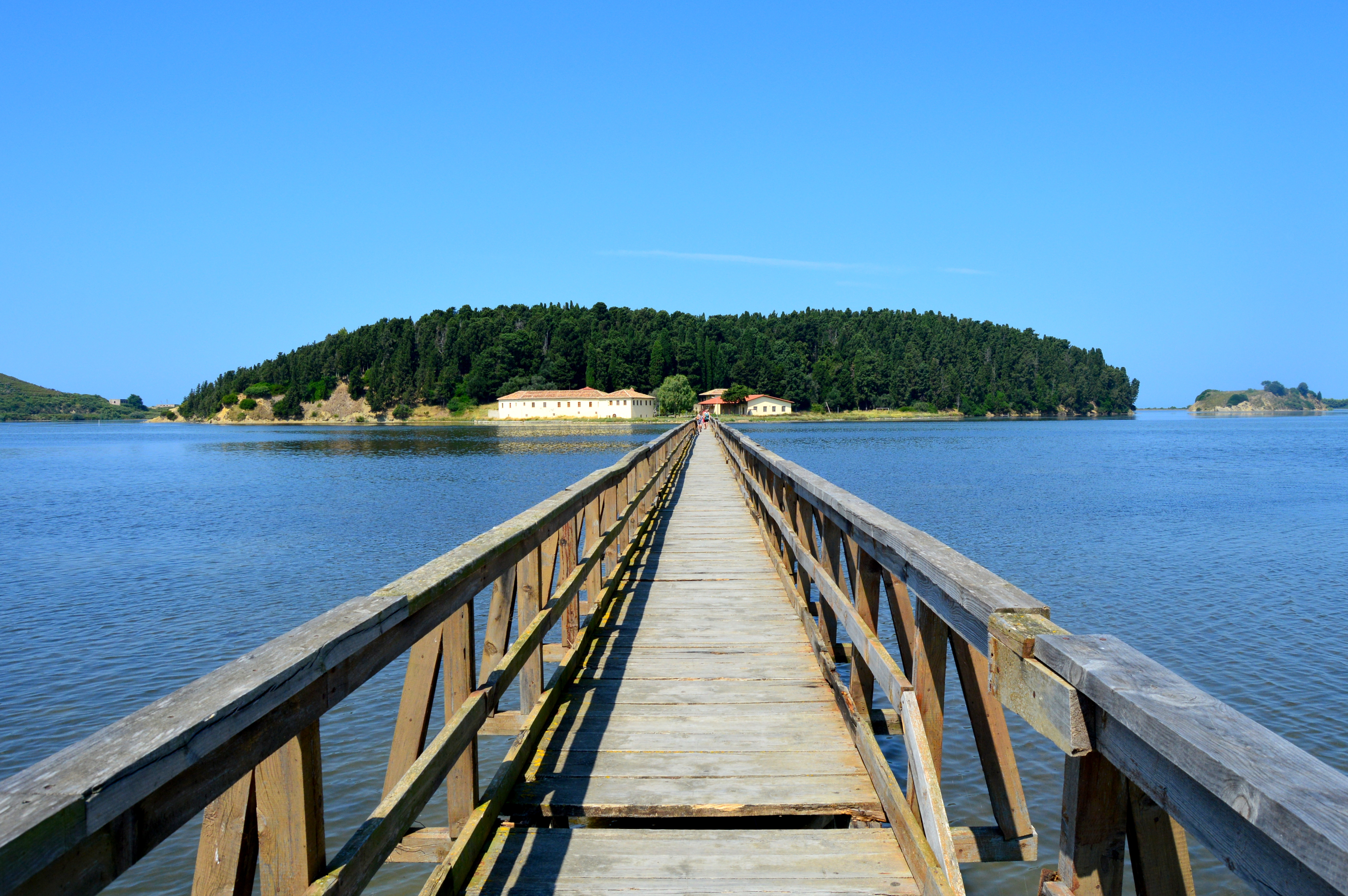 The wooden bridge leading to the island where the monastery is situated.